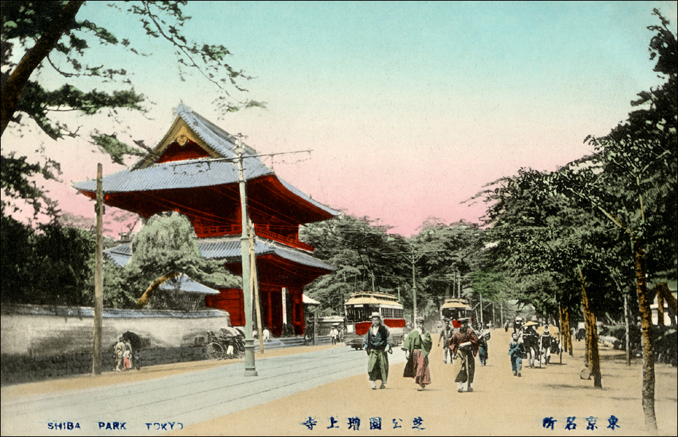 View of Shiba Park